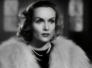 Cropped screenshot of Carole Lombard from the trailer for the film Fools for Scandal